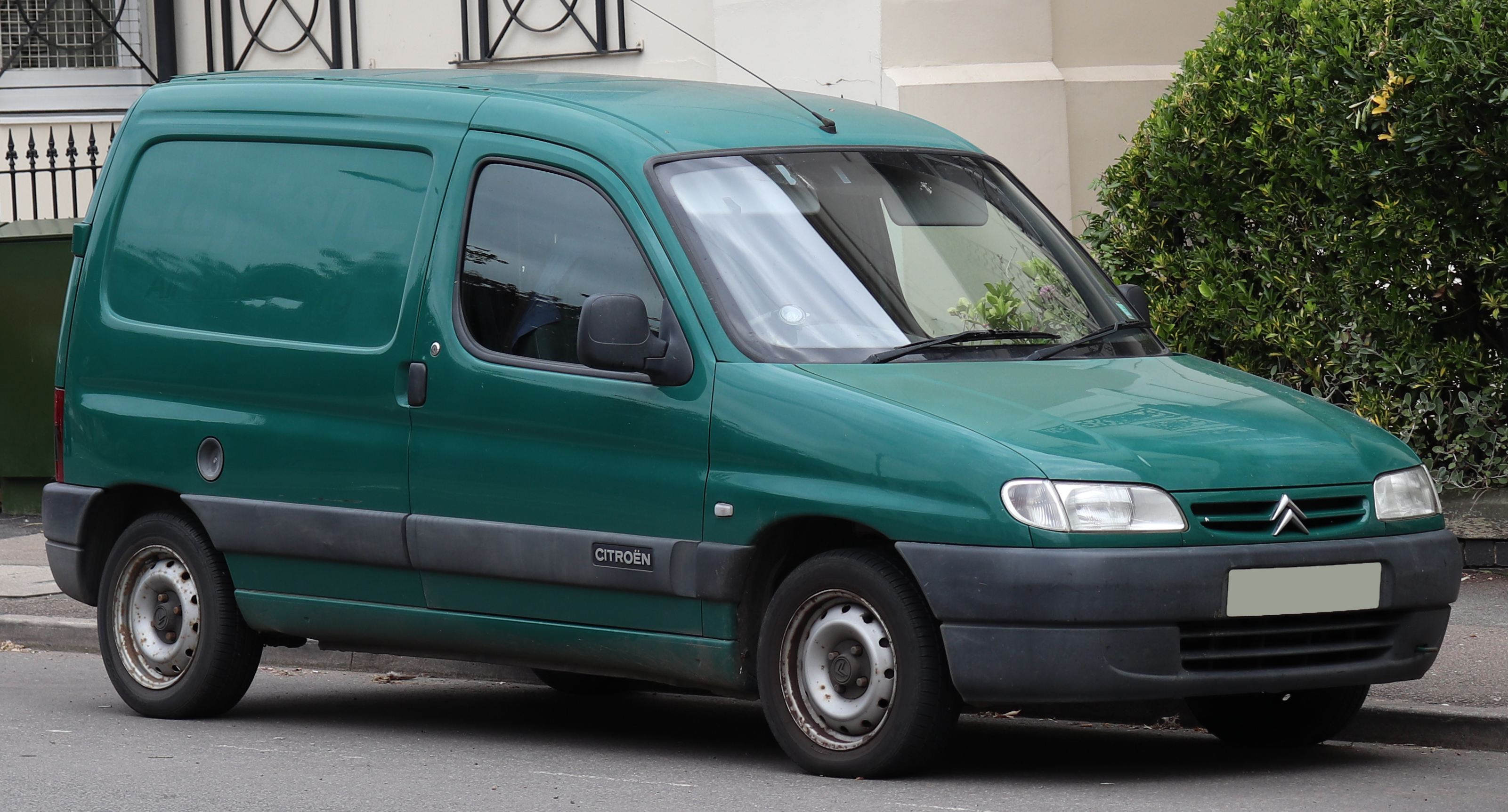 2000 Citroen Berlingo 1.9 Front Taken in Leamington Spa